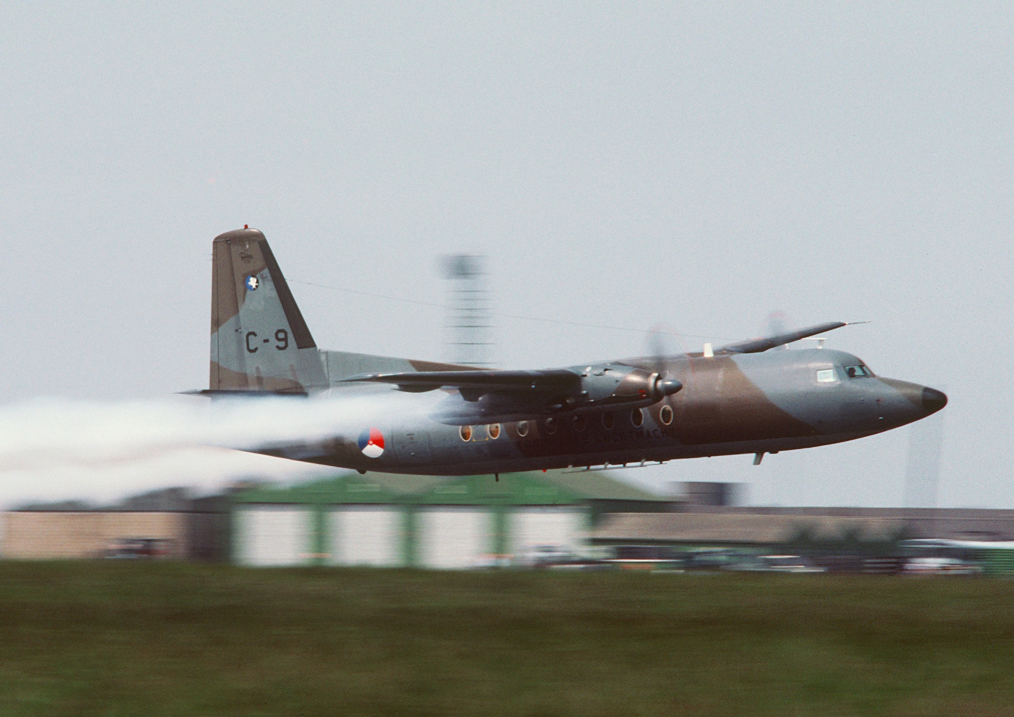 A Royal Netherlands Air Force Fokker F-27-300M aircraft (s/n C-9) from 334 squadron, making a low pass during "Air Fete '84" at RAF Mildenhall, Suffolk (UK), 9 June 1984.